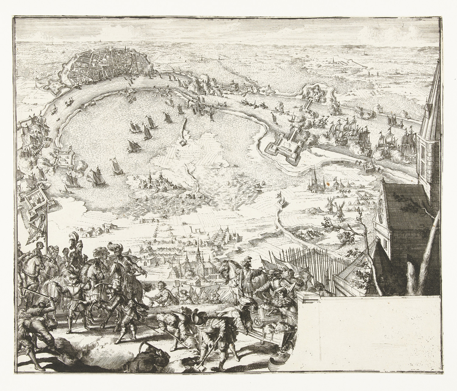 Antwerpen under siege, oct 1584 Parma zet de schop in de grond, oktober 1584. Op de achtergrond Antwerpse schepen beschieten tevergeefs de pas aangelegde forten om afsluiting van de Schelde te voorkomen..